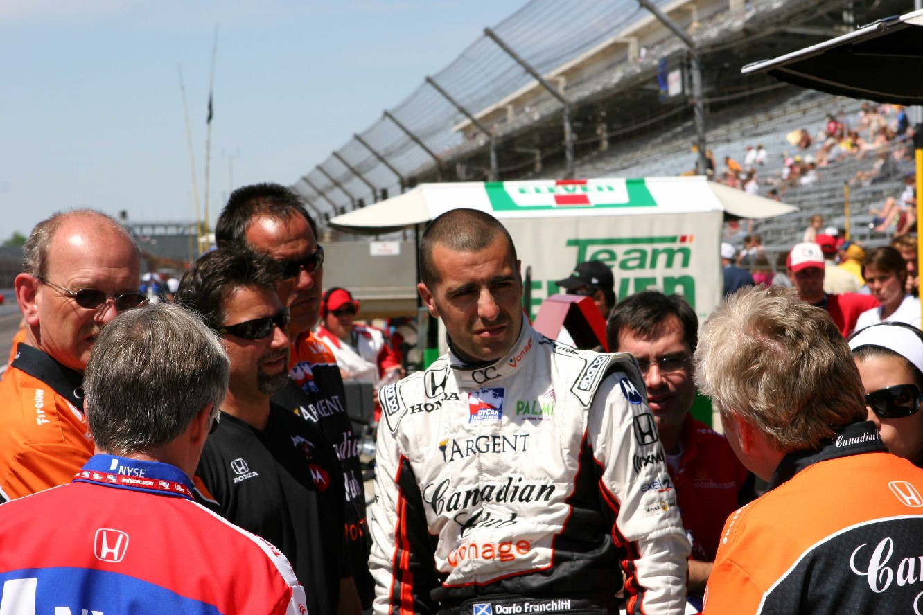 Team Andretti-Green has a team meeting on Pit Road at Indy, 2007. Picture by Tim Wohlford